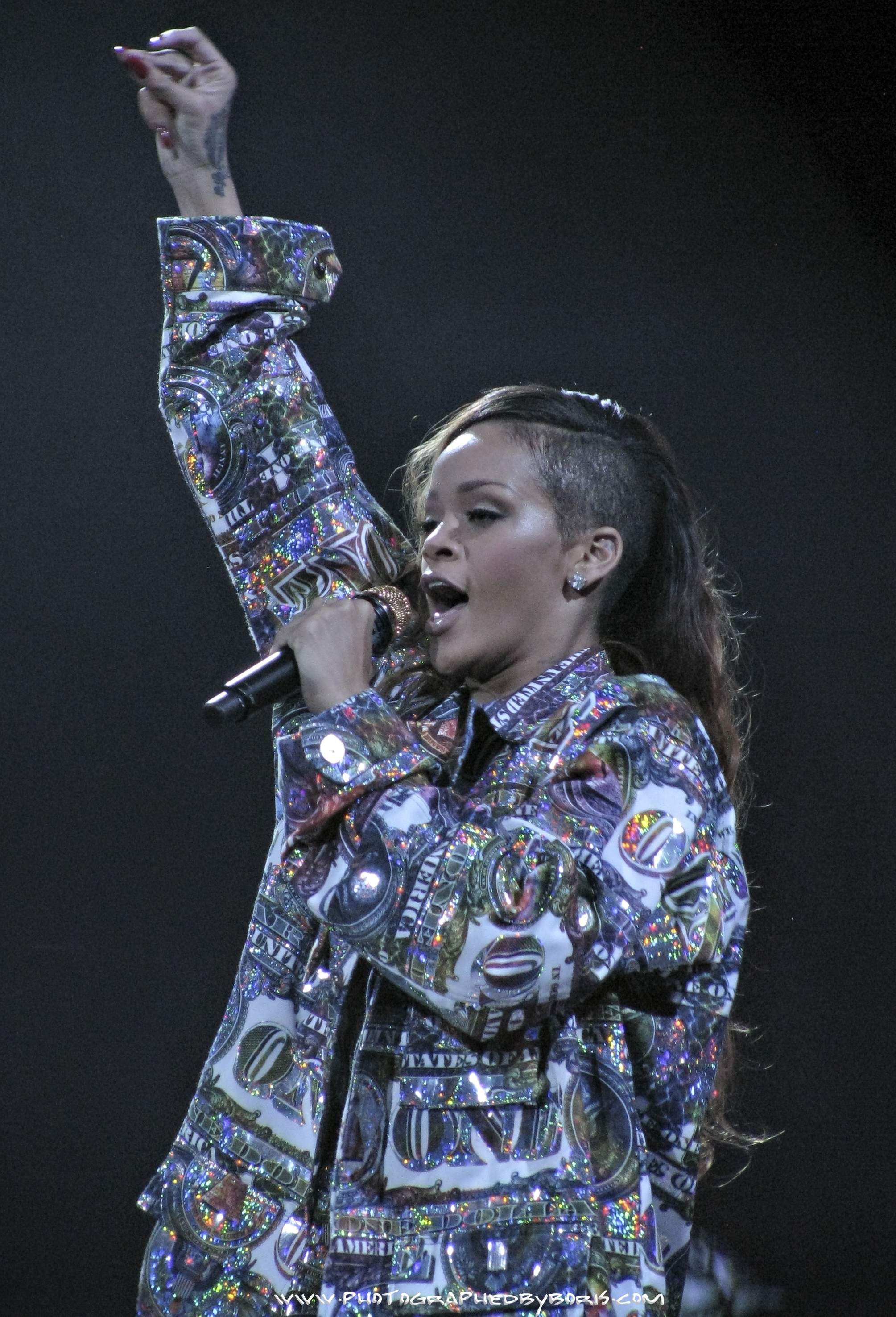 Rihanna performing Diamonds World Tour at the Air Canada Centre, 19 March 2013.